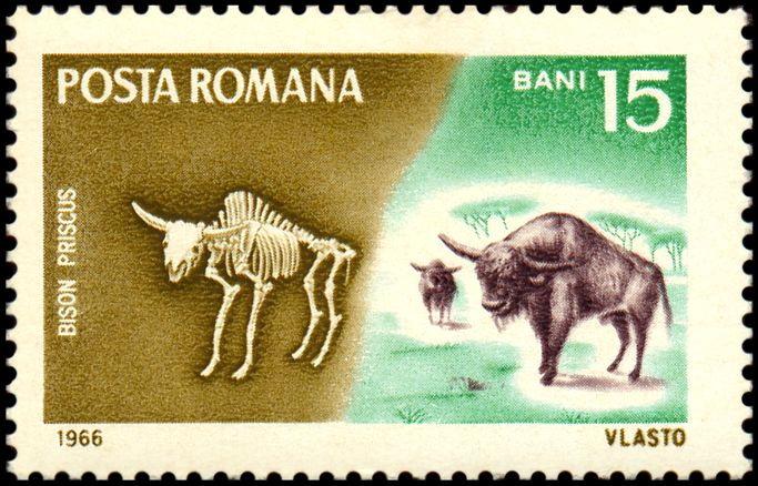 1966 Romanian Post; 15 bani; brown, light green, dark brown; representing Steppe Wisent - Bison priscus; Series: Prehistoric animals; Design: Vlasto.